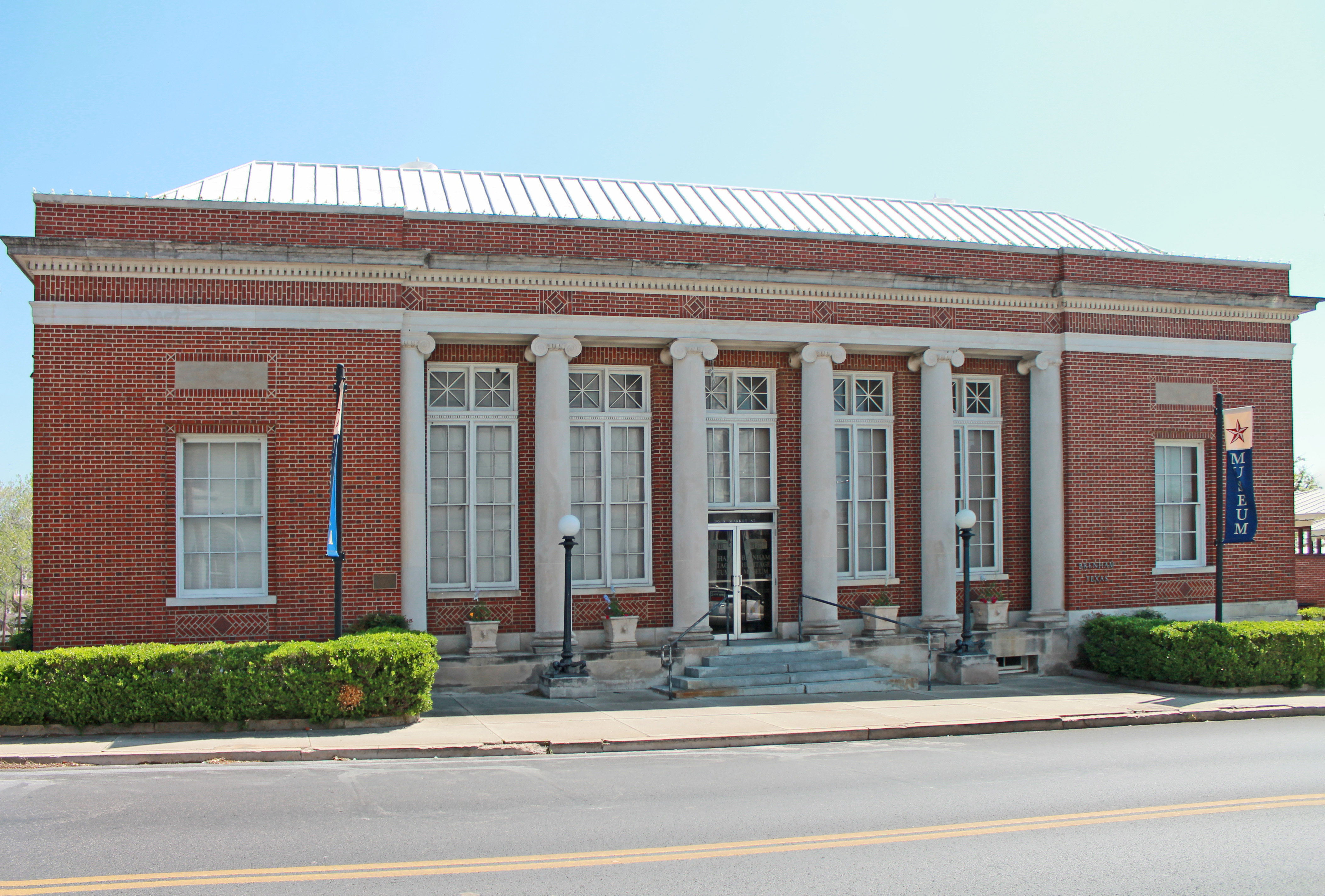 U.S. Post Office Federal Building-Brenham, TX